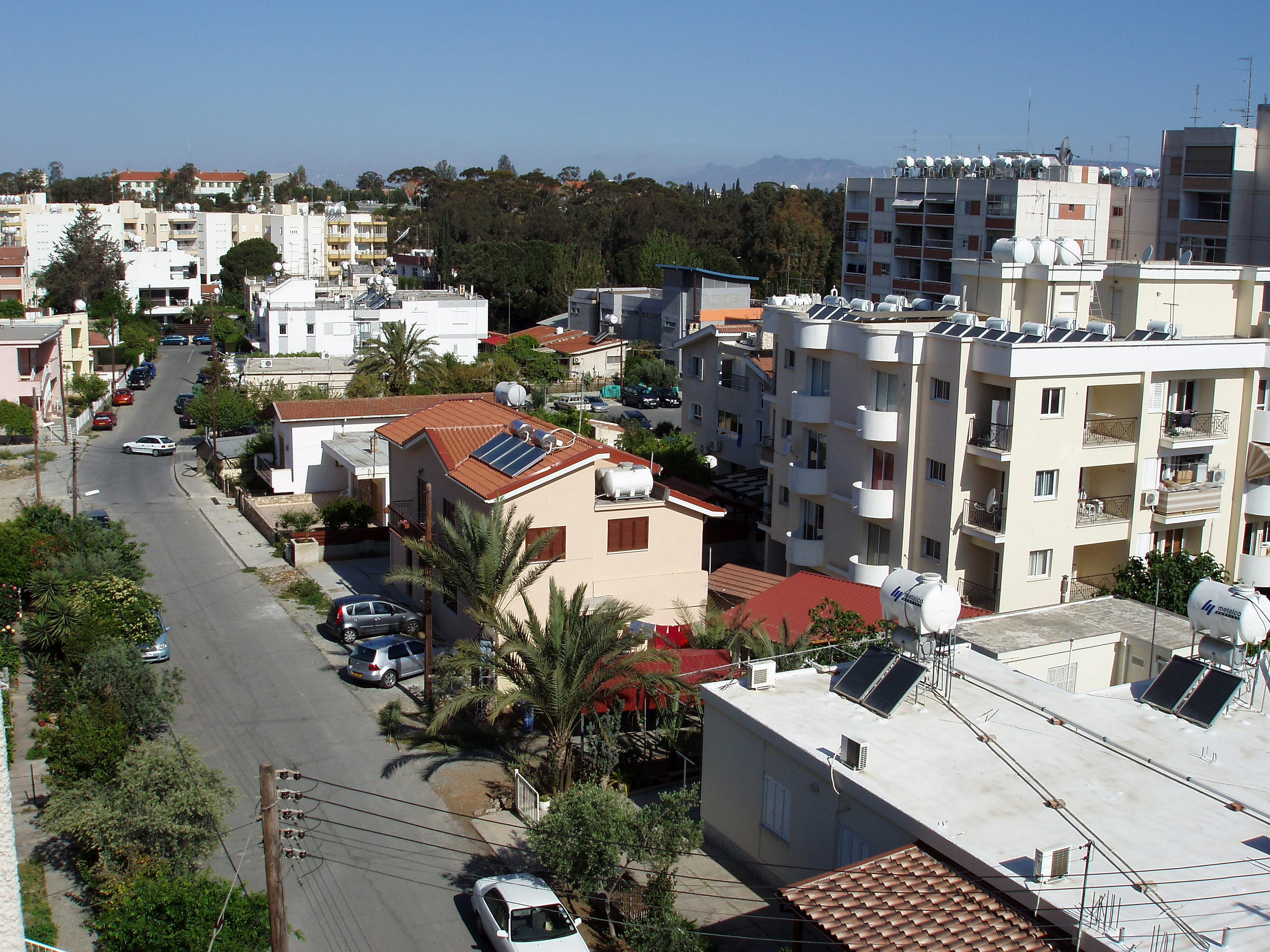 Strovolos Panoramic view by Georgy